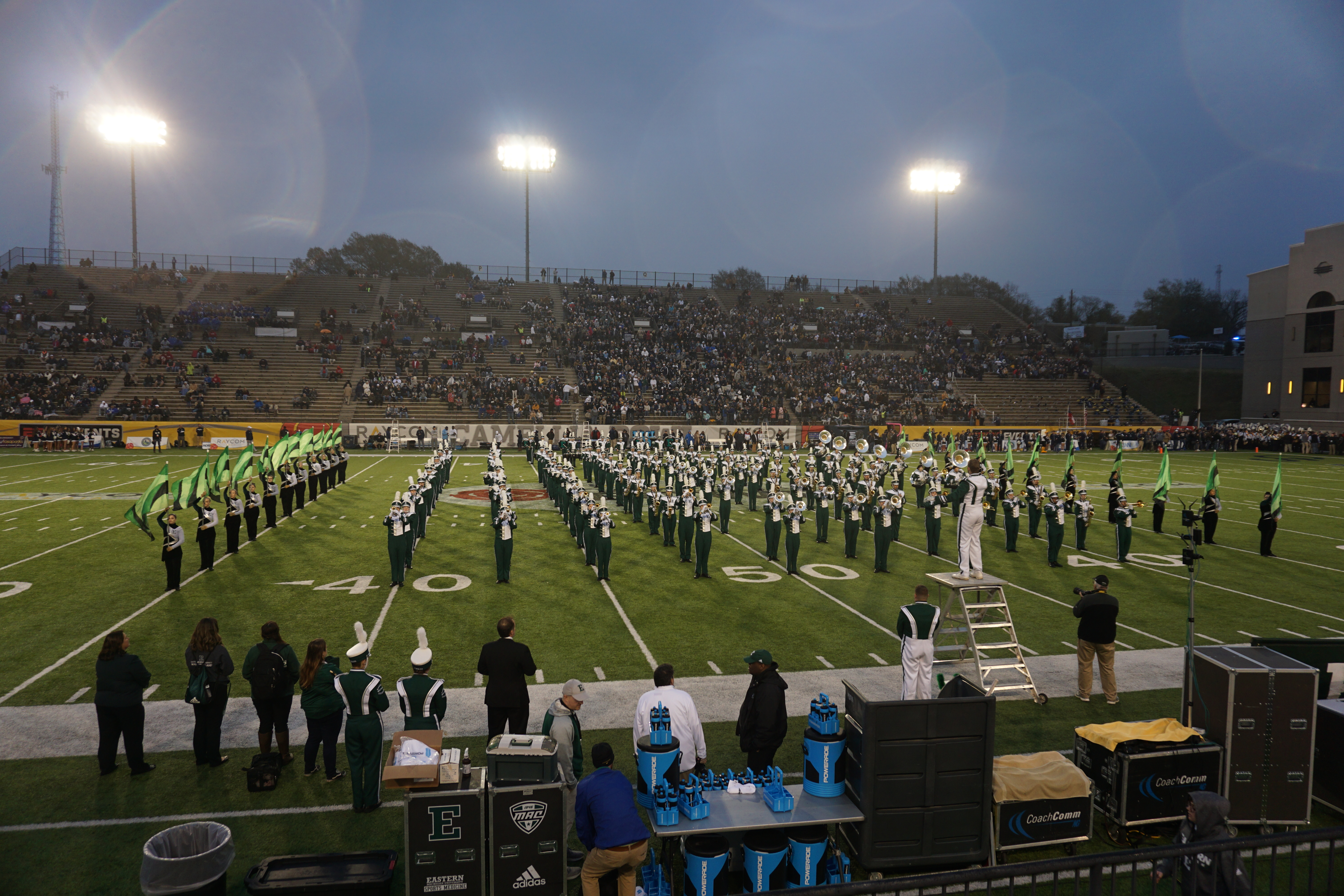 The Eastern Michigan University Marching Band performing before the 2018 Camellia Bowl (Georgia Southern Eagles vs. Eastern Michigan Eagles) at the Cramton Bowl in Montgomery, Alabama (United States). Georgia Southern won 23–21.